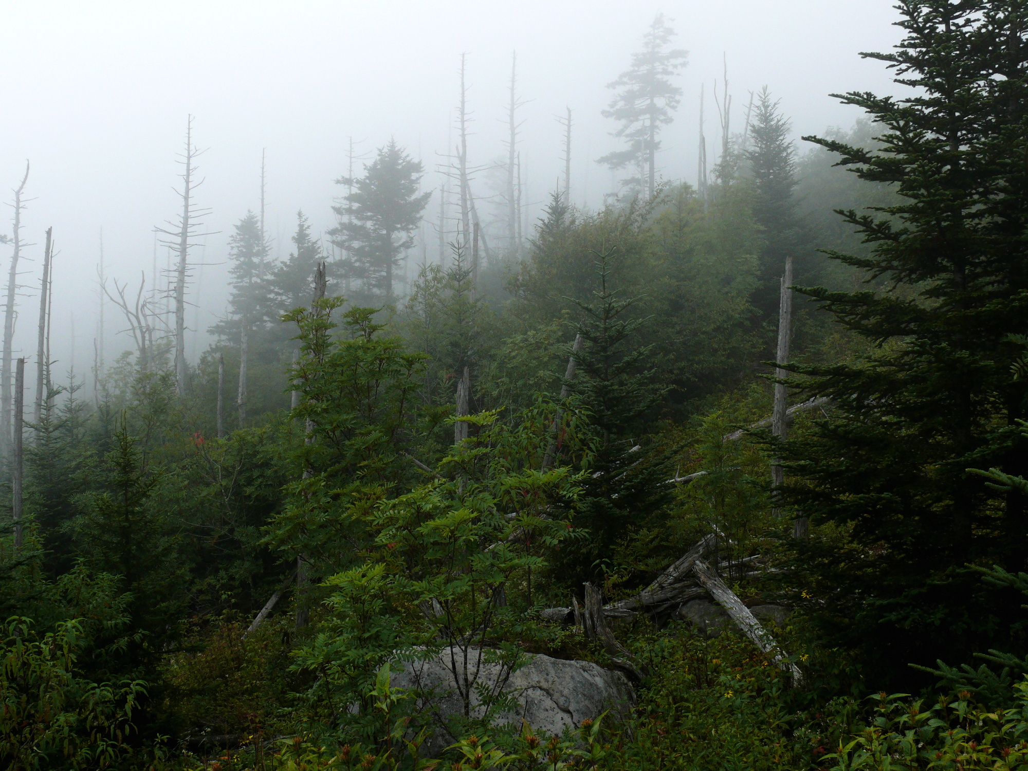 High-elevation spruce-fir forest on Clingmans Dome. Photo taken with a Panasonic Lumix DMC-FZ50 in Great Smoky Mountains National Park.